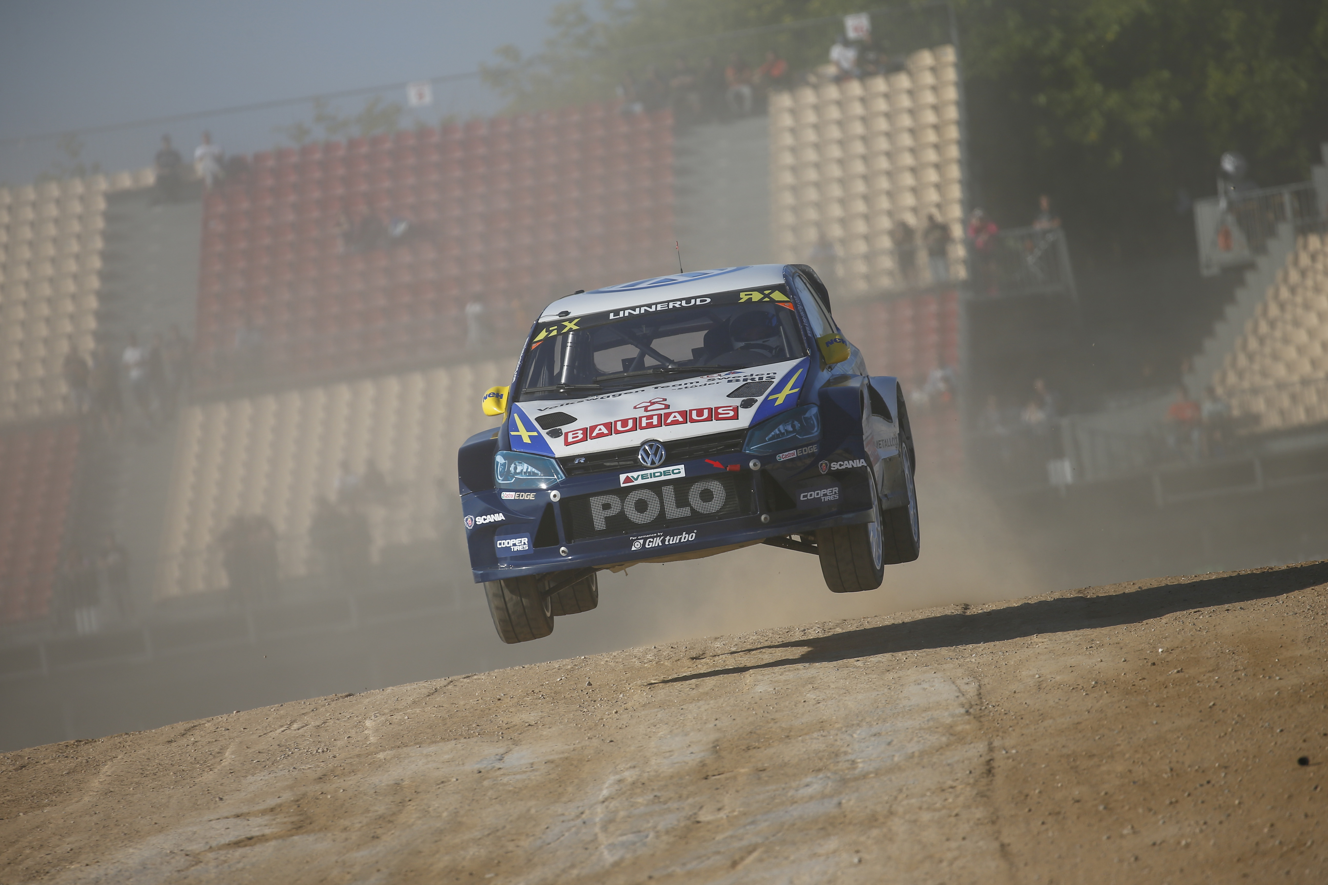 Tord Linnerud in his VW Polo R Supercar. Round 10 of the 2015 FIA World Rallycross Championship at Circuit de Barcelona-Catalunya, Spain.